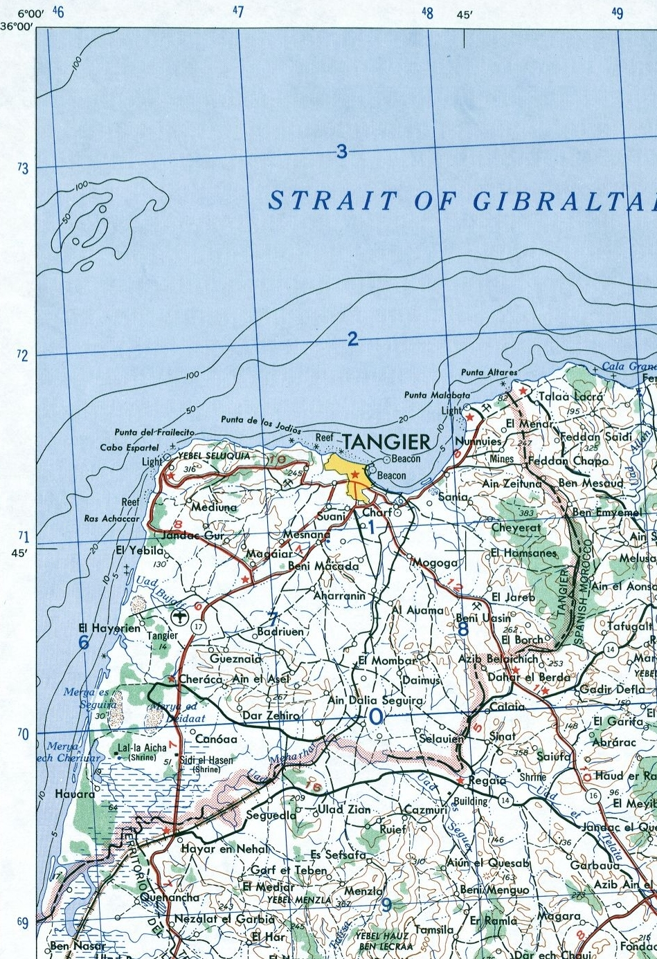 map of the area of the former International Zone of Tangier, Morocco